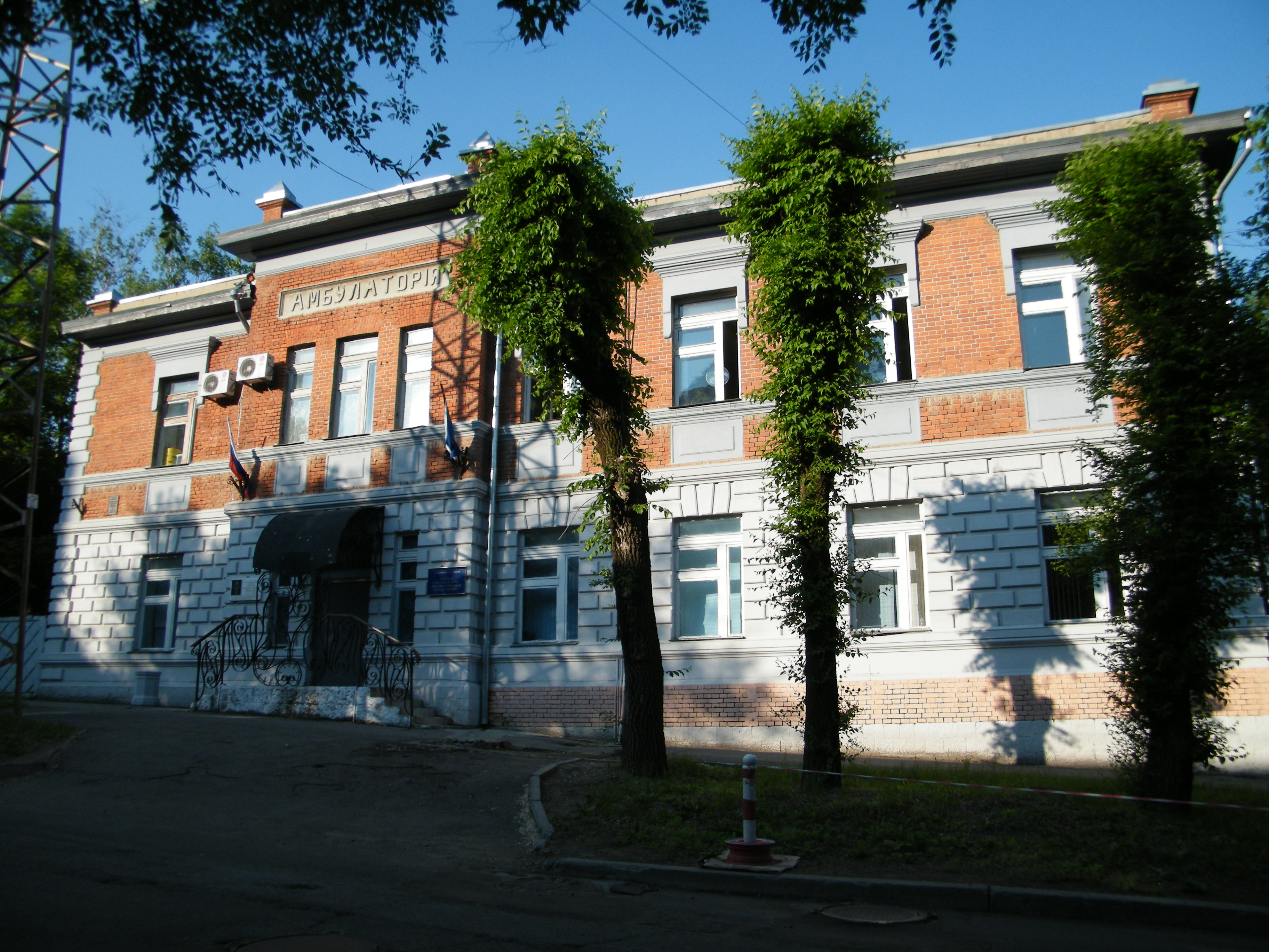 Амбулаторiя в Хабаровске